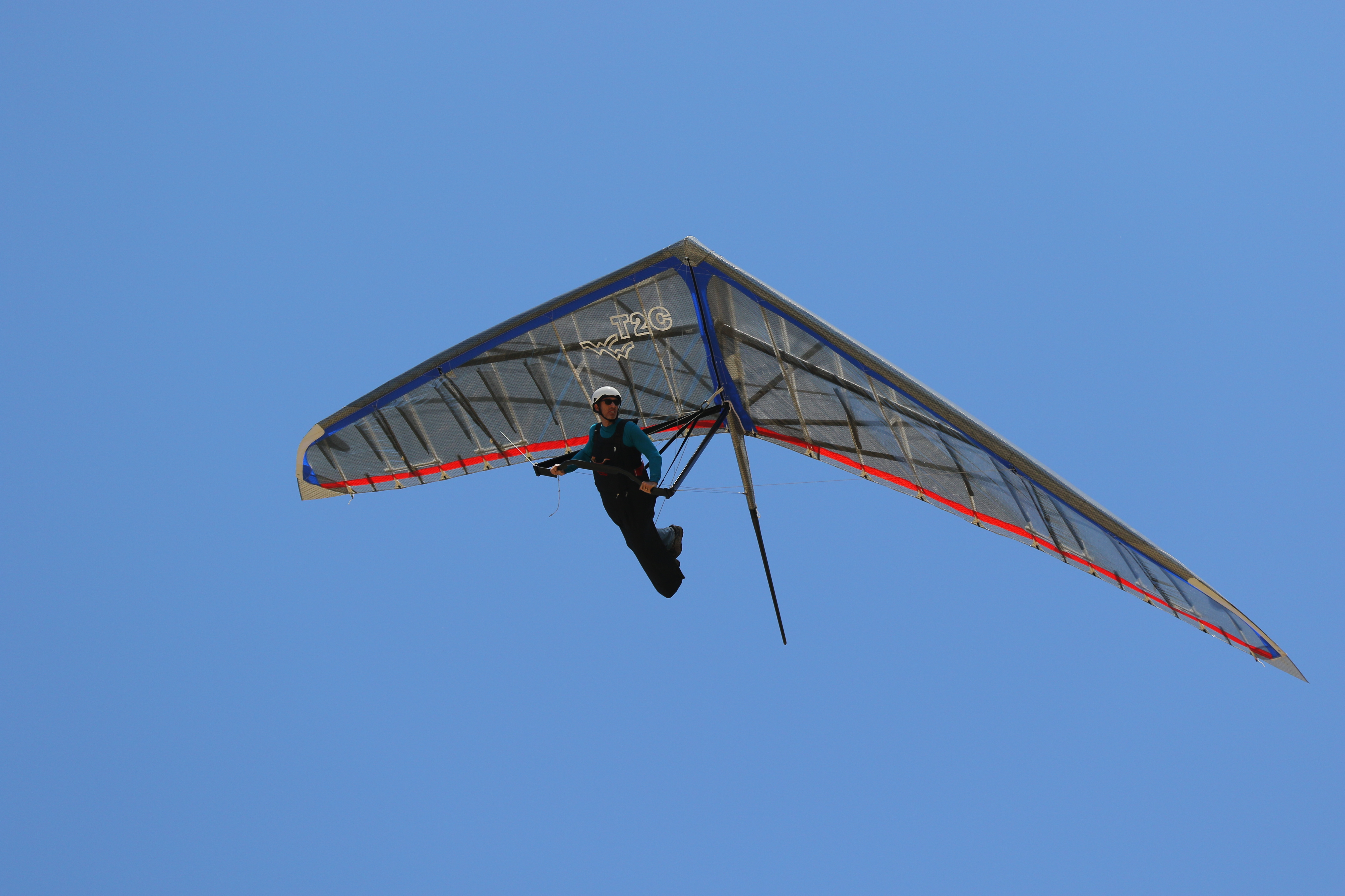 Wills Wing Principal designer Steve Pearson test flying a new T2C 144